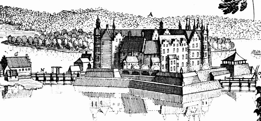 Schwerin Castle before 1651